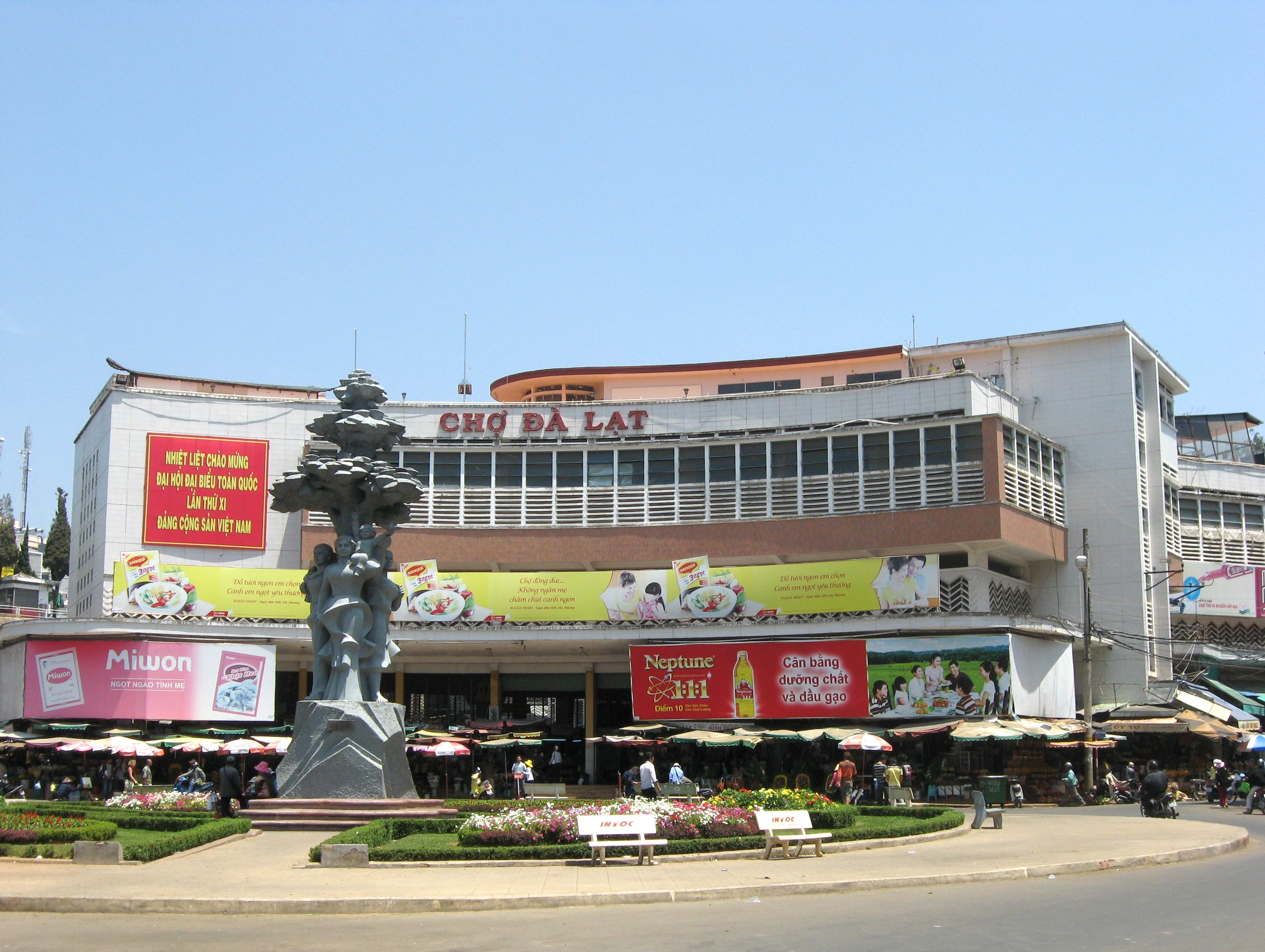 Da Lat Market